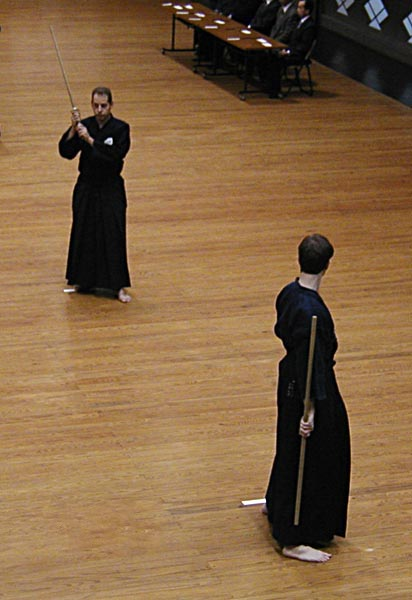 Taking kamae in the martial art of Jodo. Copyright released for this photo via